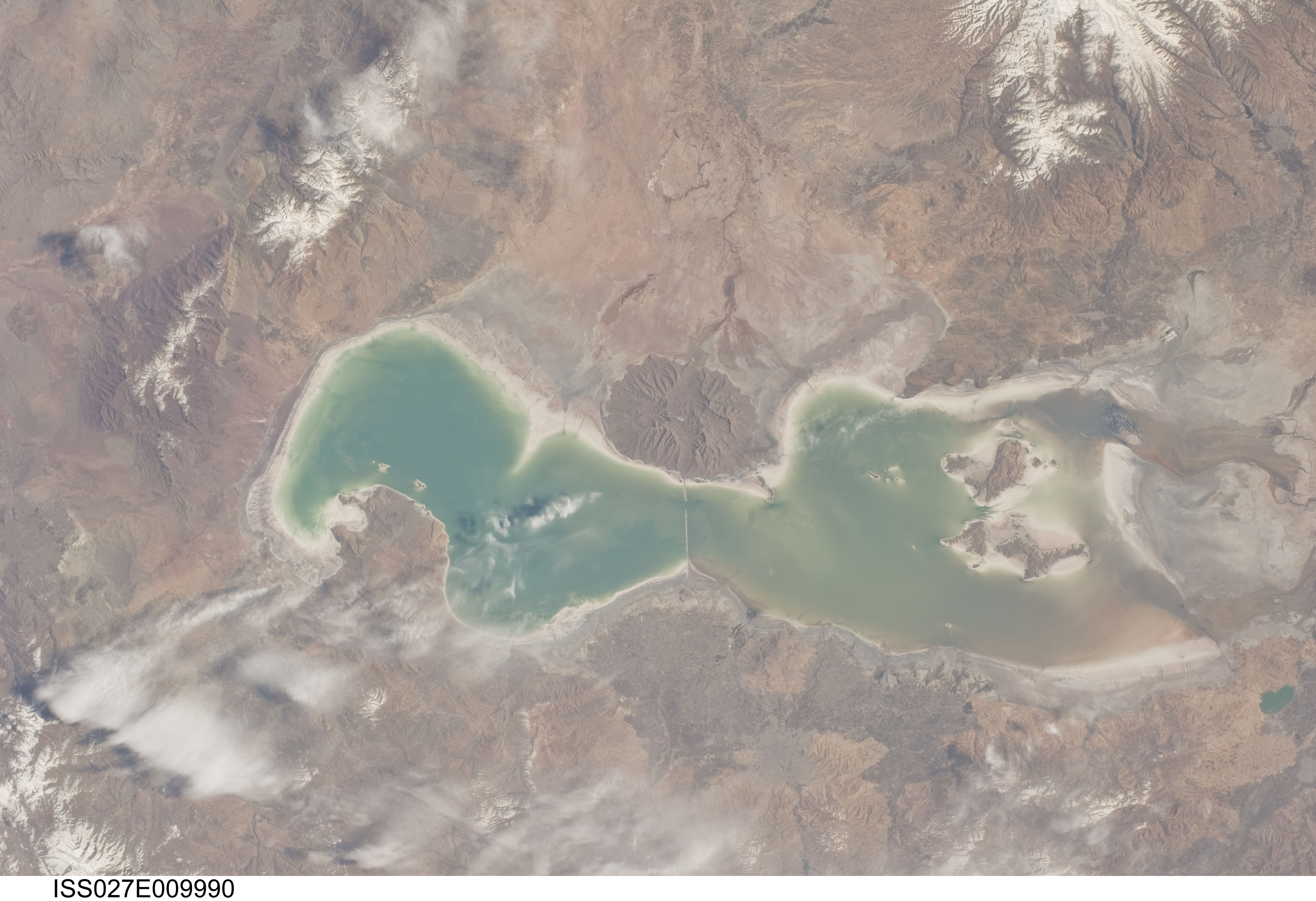 Lake Urmia as seen from the ISS